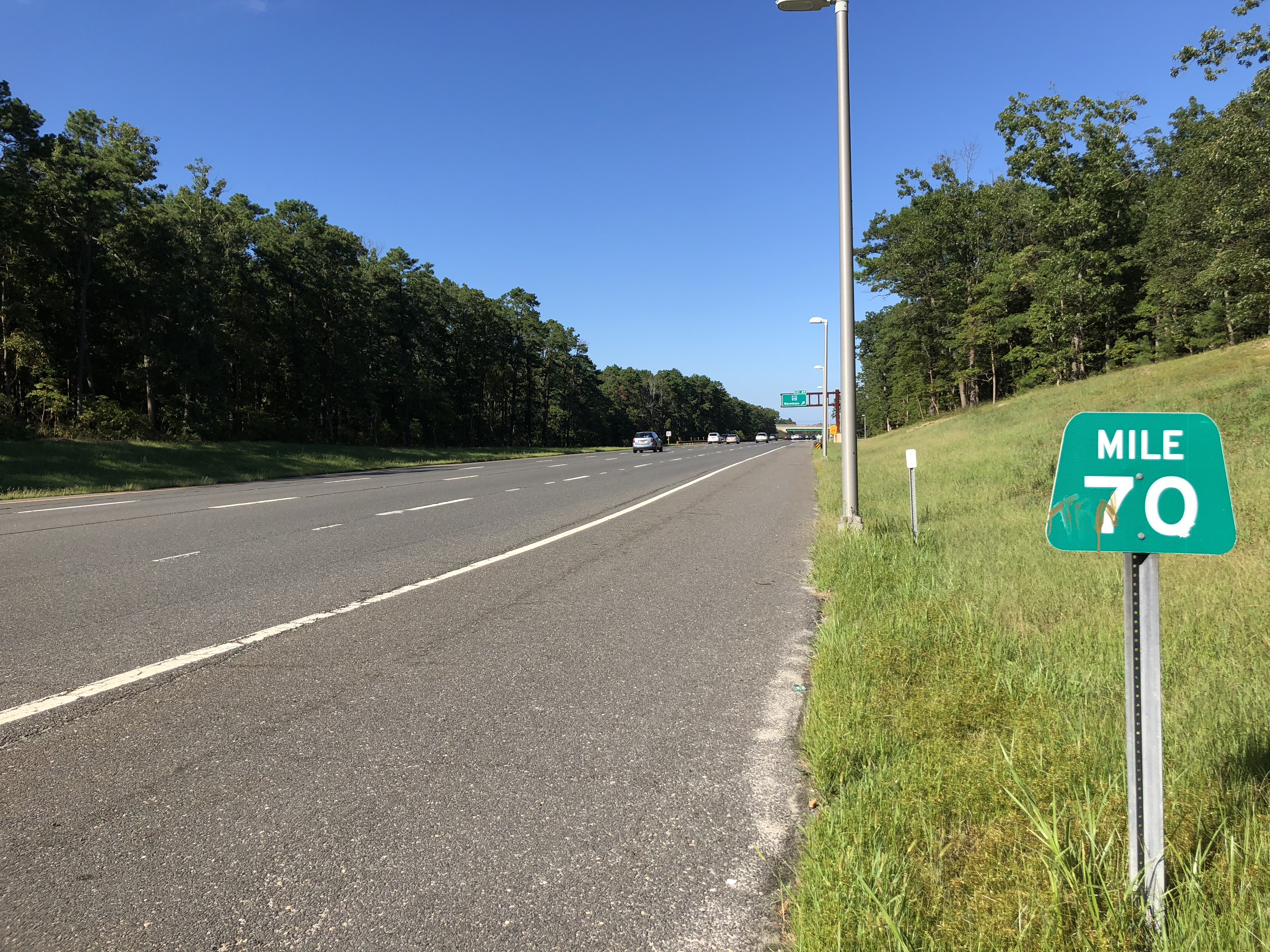 View north along New Jersey State Route 444 (Garden State Parkway) just south of Exit 69 in Ocean Township, Ocean County, New Jersey